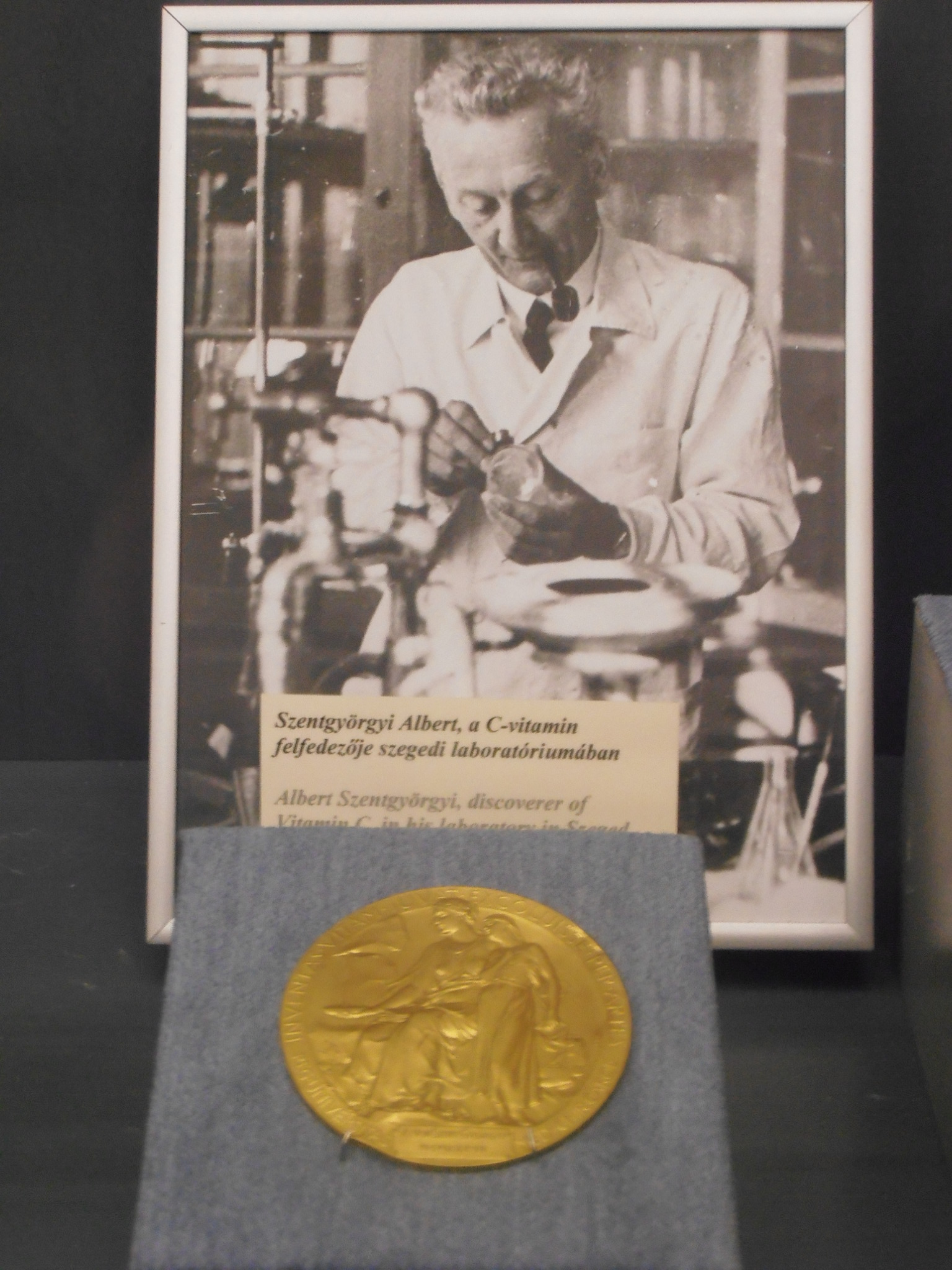 Copy of the Nobel medal of Albert Szent-Györgyi in the Hungarian National Museum, Budapest